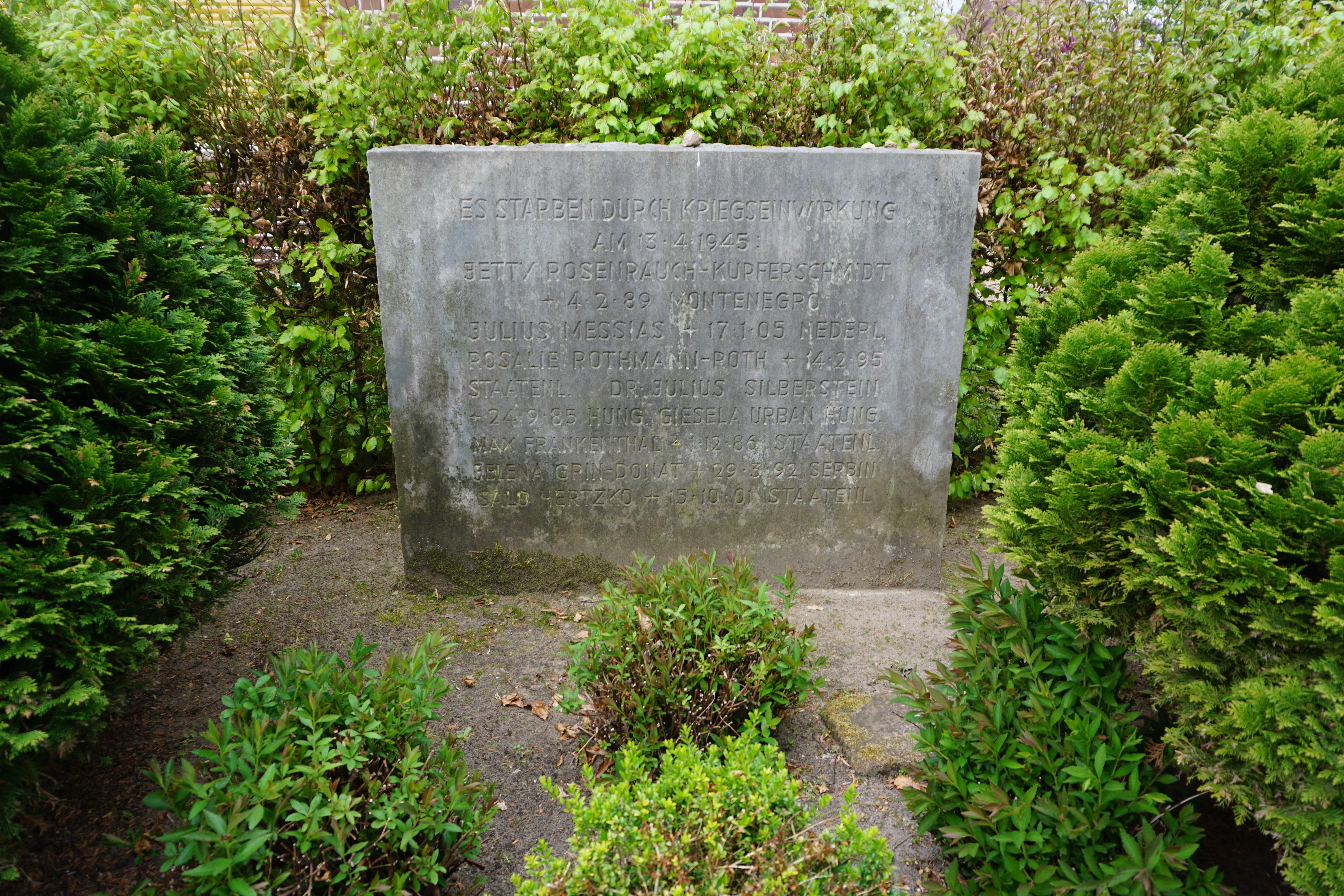 Burial place of 8 concentration camp prisoners who died in the "Zug der Verlorenen" on 13 April 1945. Buried persons: Jetty Rosenrauch-Kupferschmidt (*1889-02-04) from Montenegro, Julius Messiah (*1905-01-17) from the Netherlands, Rosalie Rothmann-Roth (*1895-02-14) stateless, Dr. Julius Silberstein (*1885-09-24) probably from Hungary, Gisela Urban (* Unknown) probably from Hungary, Max Frankenthal (*1886-12-01) stateless, Jelena Grin-Donat (*1892-03-29) from Serbia, Salo Hertzko (*1901-10-15) stateless